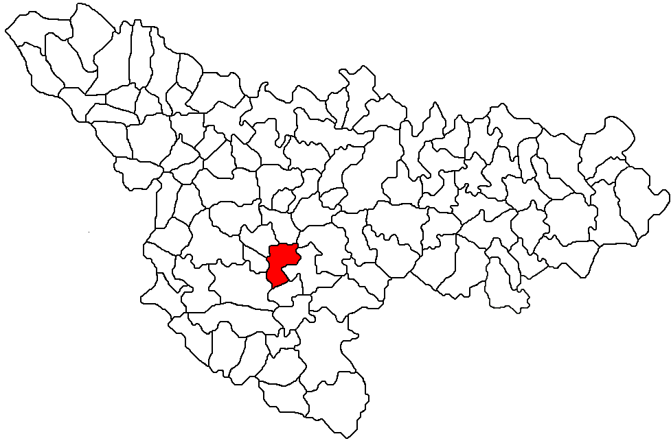 Locator map of the commune of Pădureni, Timiș County Romania